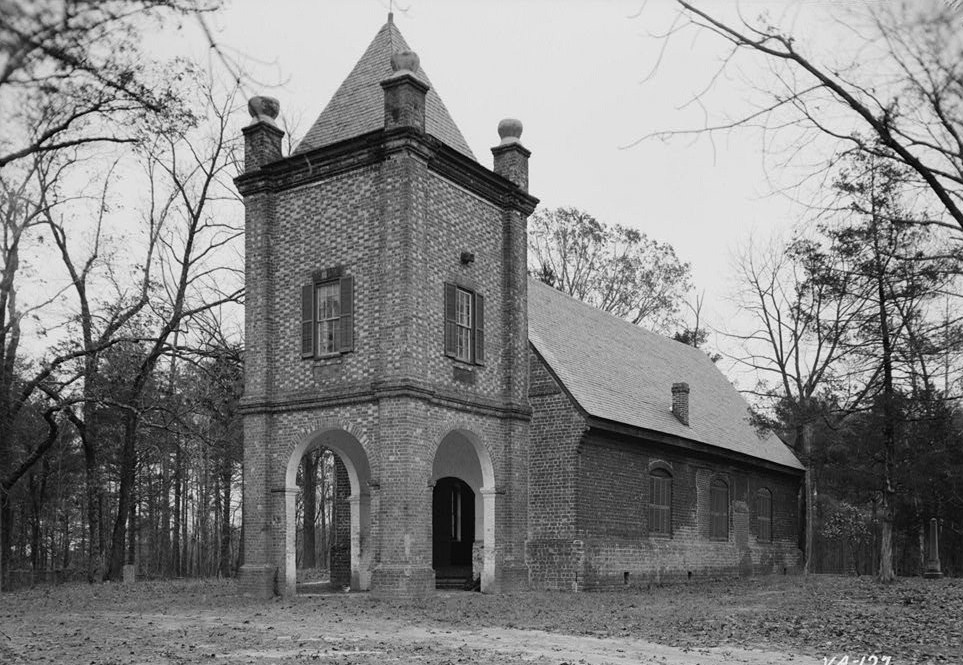 St. Peter's Church, State Route 642, Tunstall vicinity (New Kent County, Virginia) Object location37° 32′ 25″ N, 77° 03′ 24″ W